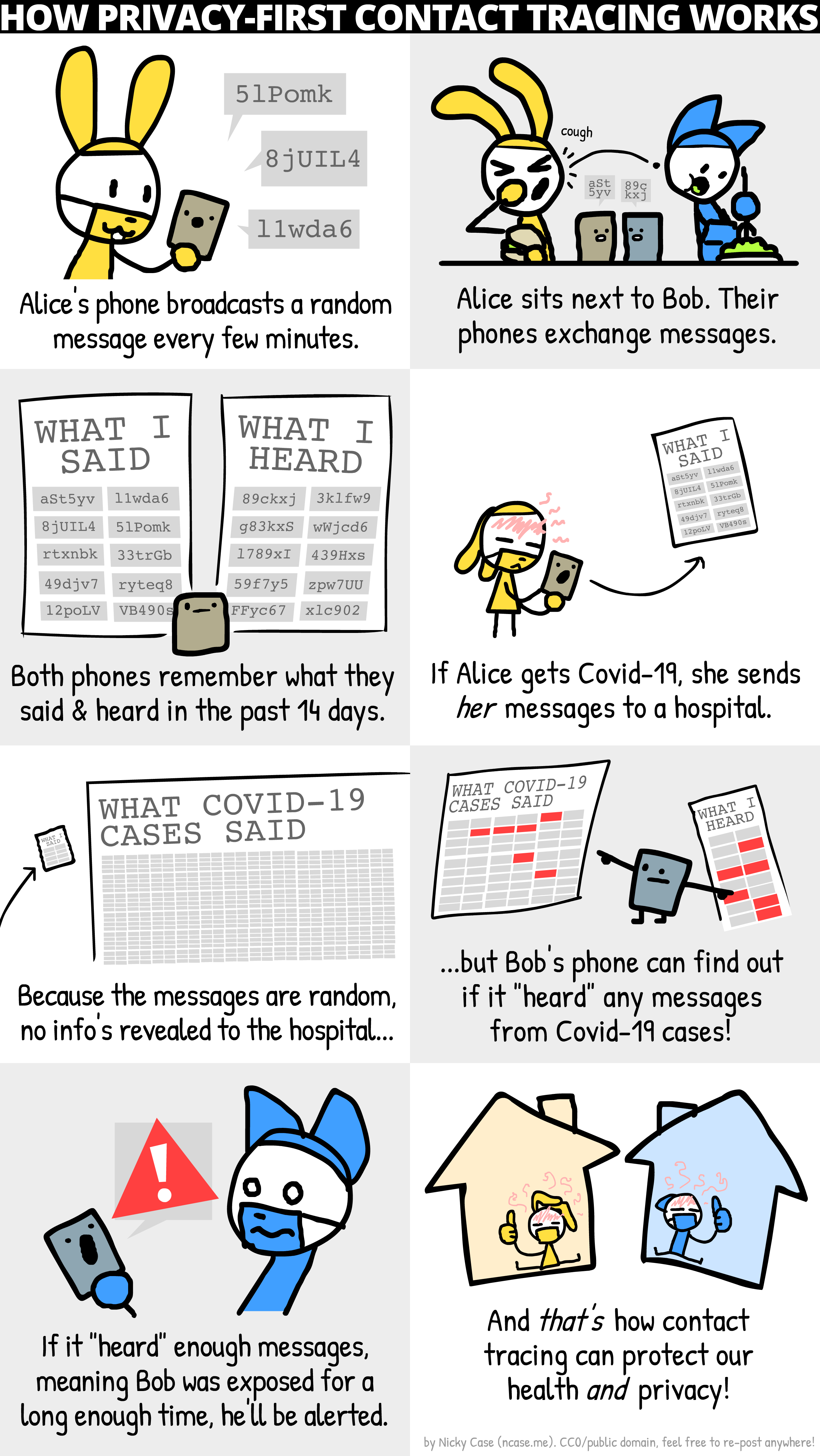 Nicky Case's DP-3T contact tracing informational comic.